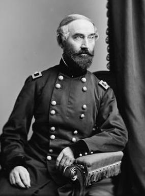 George Washington Cullum.